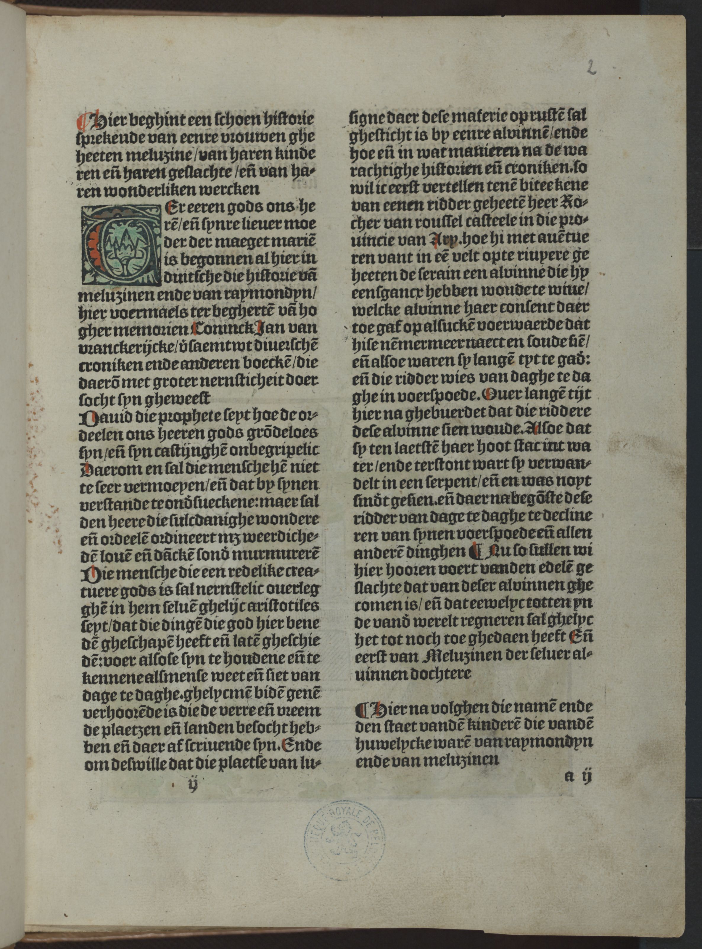 Histoire de la belle Mélusine [Dutch] / Jean d'Arras